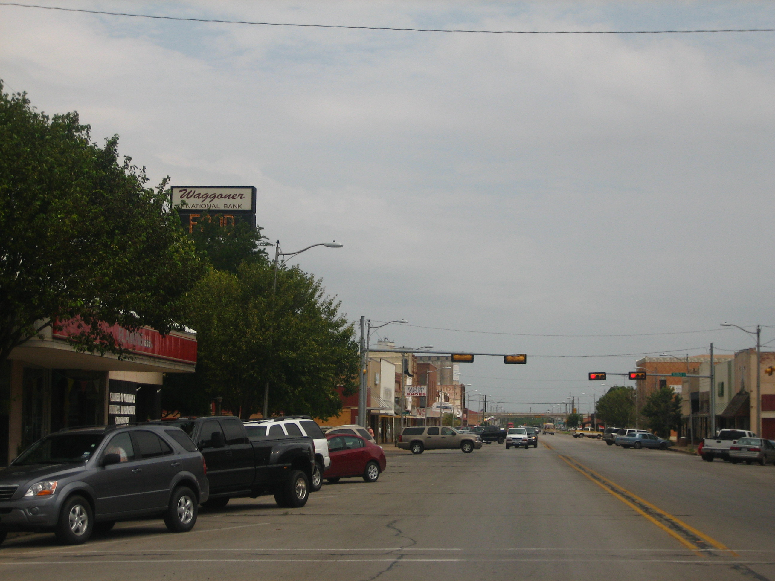 I took photo in July 2008.